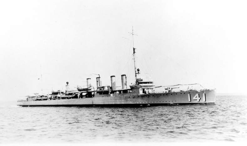 The U.S. Navy destroyer USS Hamilton (DD-141) at sea, circa in the 1930s.